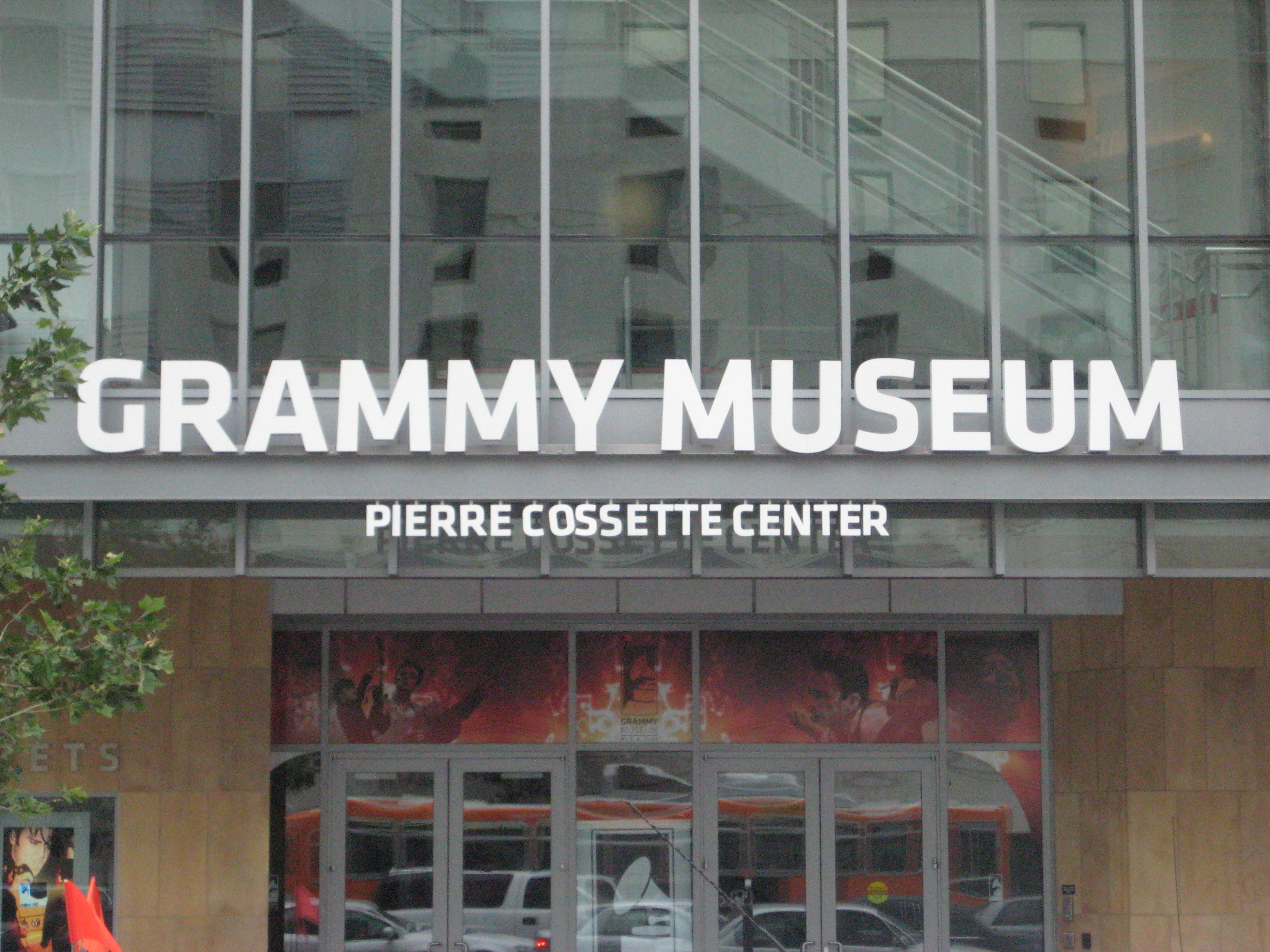 Front entrance of the Grammy Museum, Los Angeles, 2009